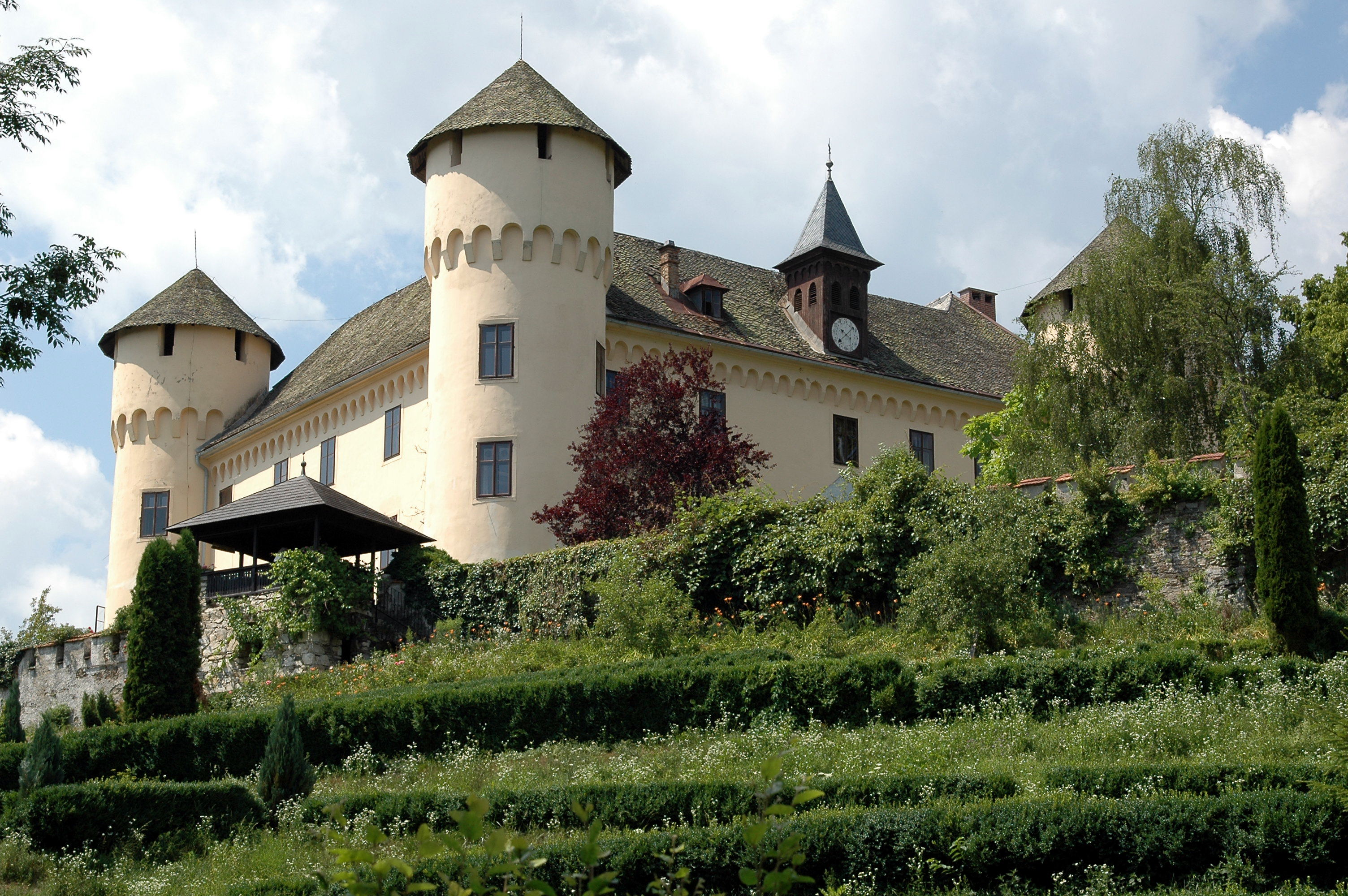 Tentschach castle, statatory town Klagenfurt, Carinthia, Austria, EU